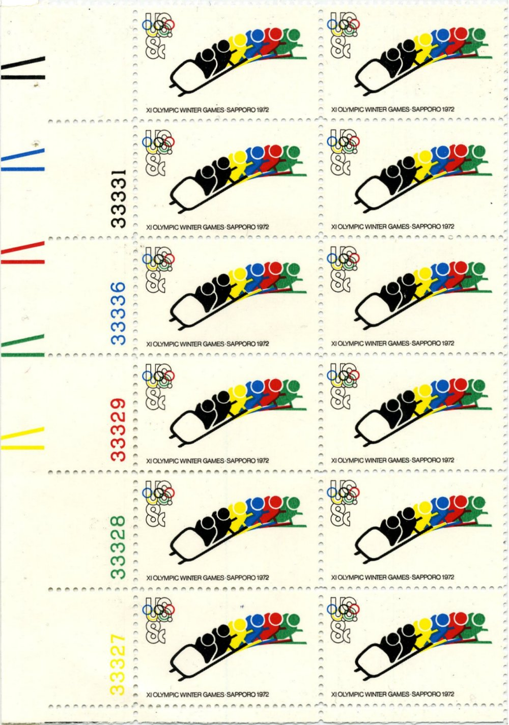 1972 Olympic Winter Games postage stamps in multiples forming plate block. US government stamps from 1972. Scan of original.